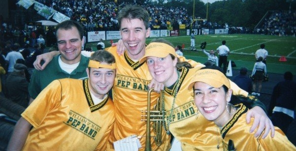 Former directors of the william and mary pep band.